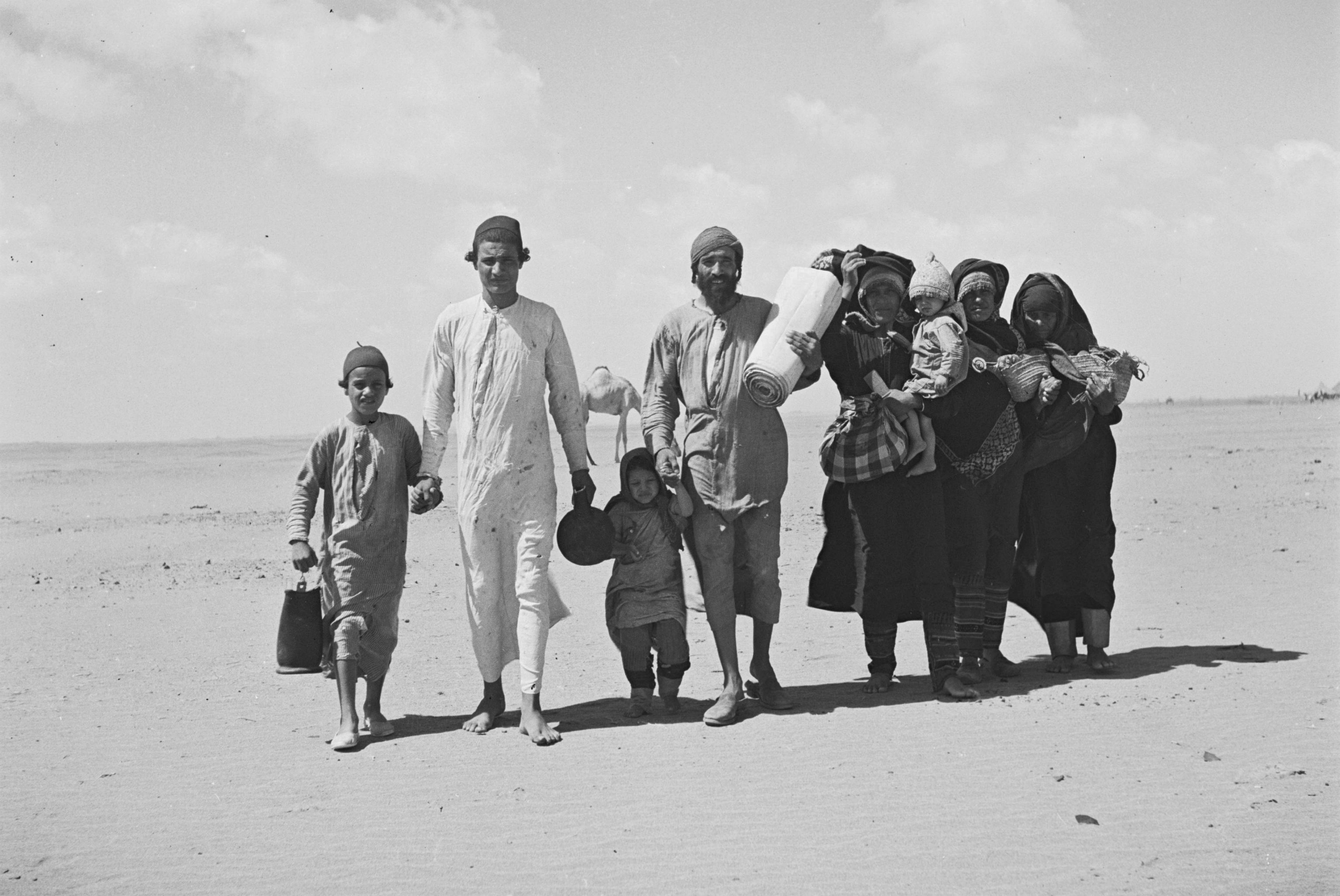 A YEMENITE FAMILY WALKING THROUGH THE DESERT TO A RECEPTION CAMP SET UP BY THE "JOINT" NEAR ADEN.